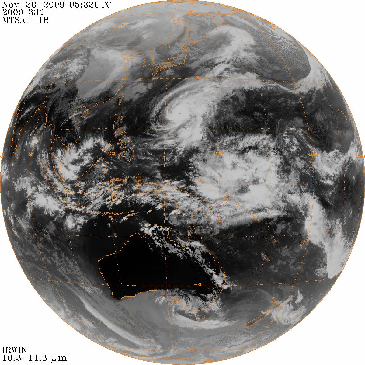 MTSAT Infrared full-disk satellite imagery of Super Typhoon Nida at peak size, intensity of 145 kt, 914 mb. The storm reached category five strength for its second time, while remaining nearly stationary for over 48 hours, as it spun itself out and weakened over its own upwelling. The storm later weakened to a depression four days afterwards and fed pieces of itself into the jet stream, creating strong North Pacific winter storms deeper than 950 mb.